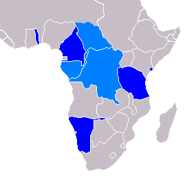 Possible outcome of the Septemberprogramm in Africa. German pre-WW1 possessions in dark blue, gains in medium blue. Had to guess a bit with the wording "contiguous German colony across central Africa" in the Septemberprogramm article, I'm assuming here that Germany would want their large northwest colony completely connected to the rest. Map modified from File:Mittelafrika2.PNG.